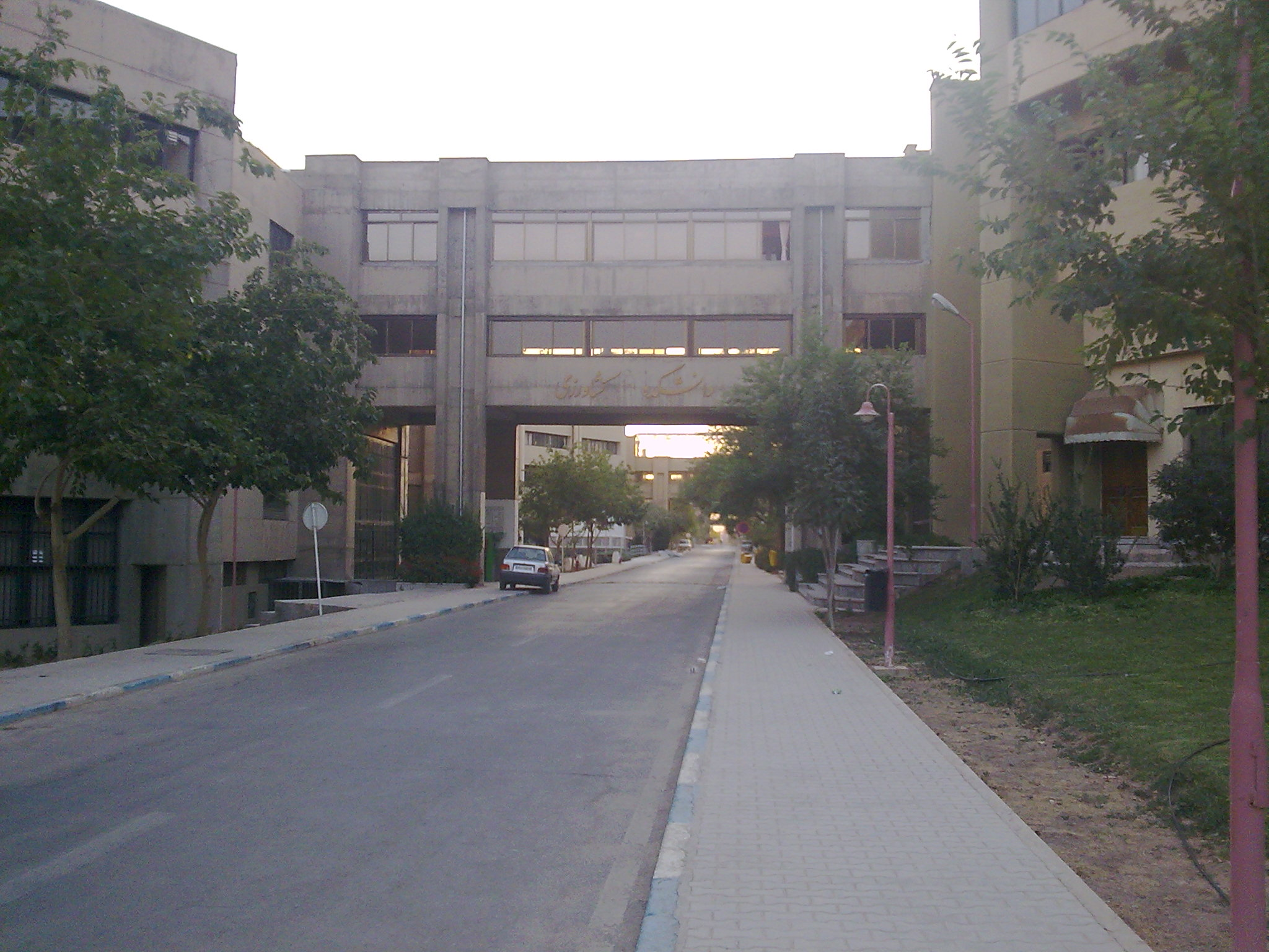 Agricultural department of Isfahan University of technology